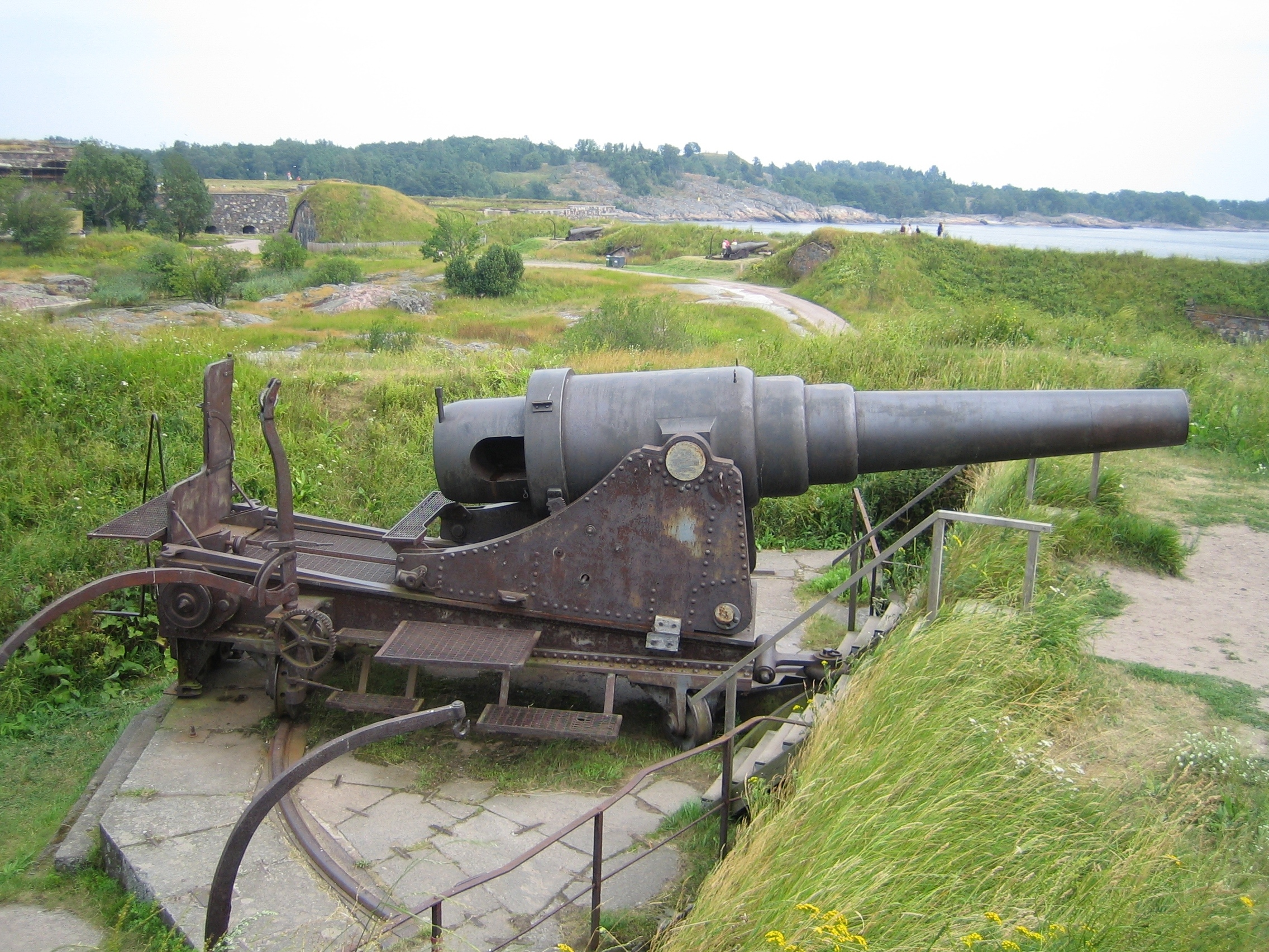 Suomenlinna